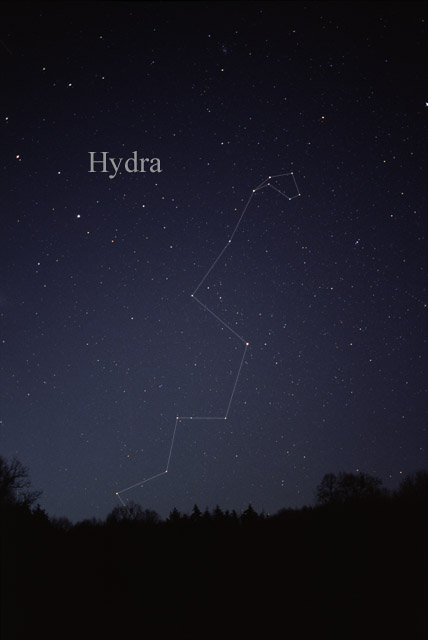 Photography of the constellation Hydra, the water snake